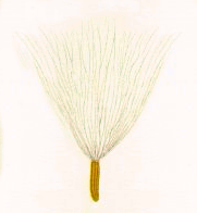 An achene, plant species Tephroseris palustris